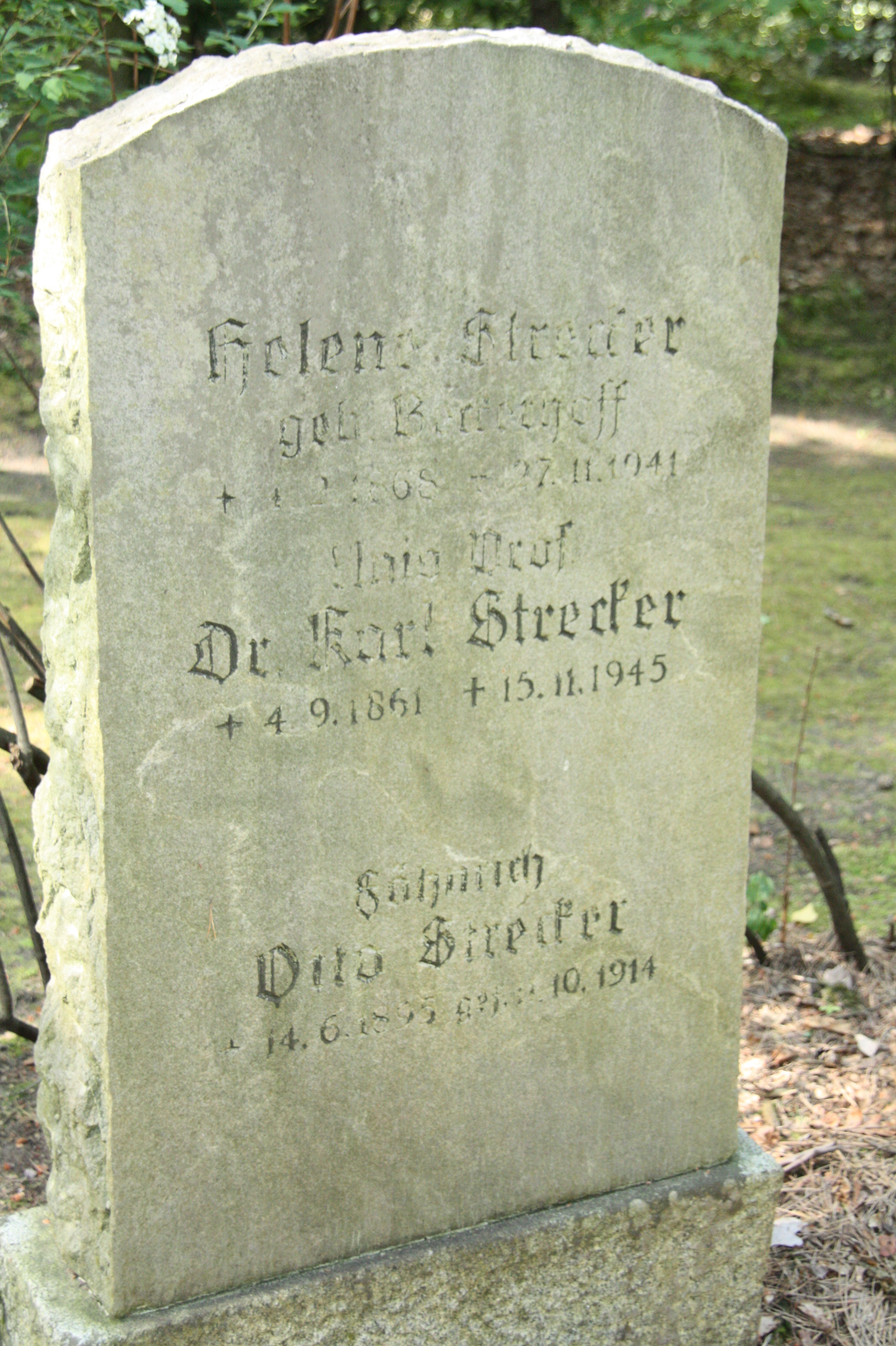 tombstone of german philologist Karl Strecker at Southwestern Cemetery Stahnsdorf near Berlin